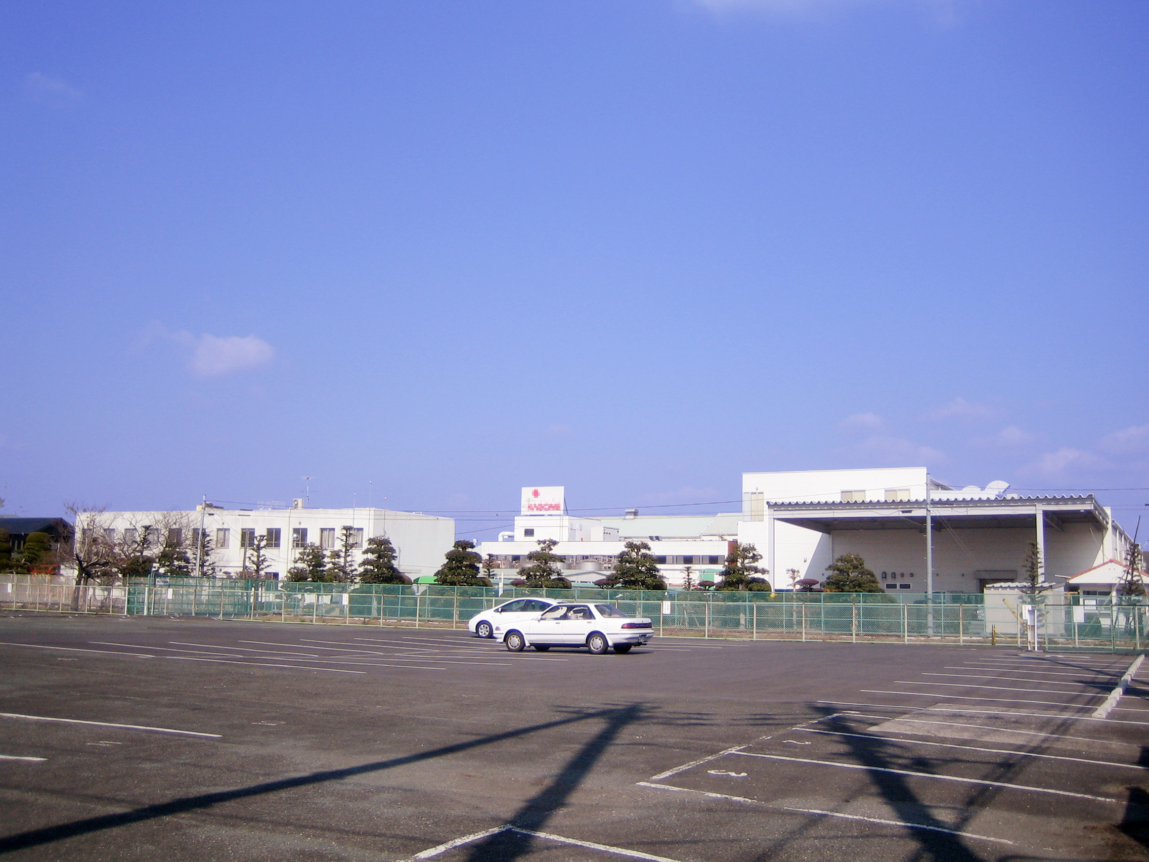 Kagome Co., Ltd. (カゴメ株式会社), in Kozakai, Aichi, Japan